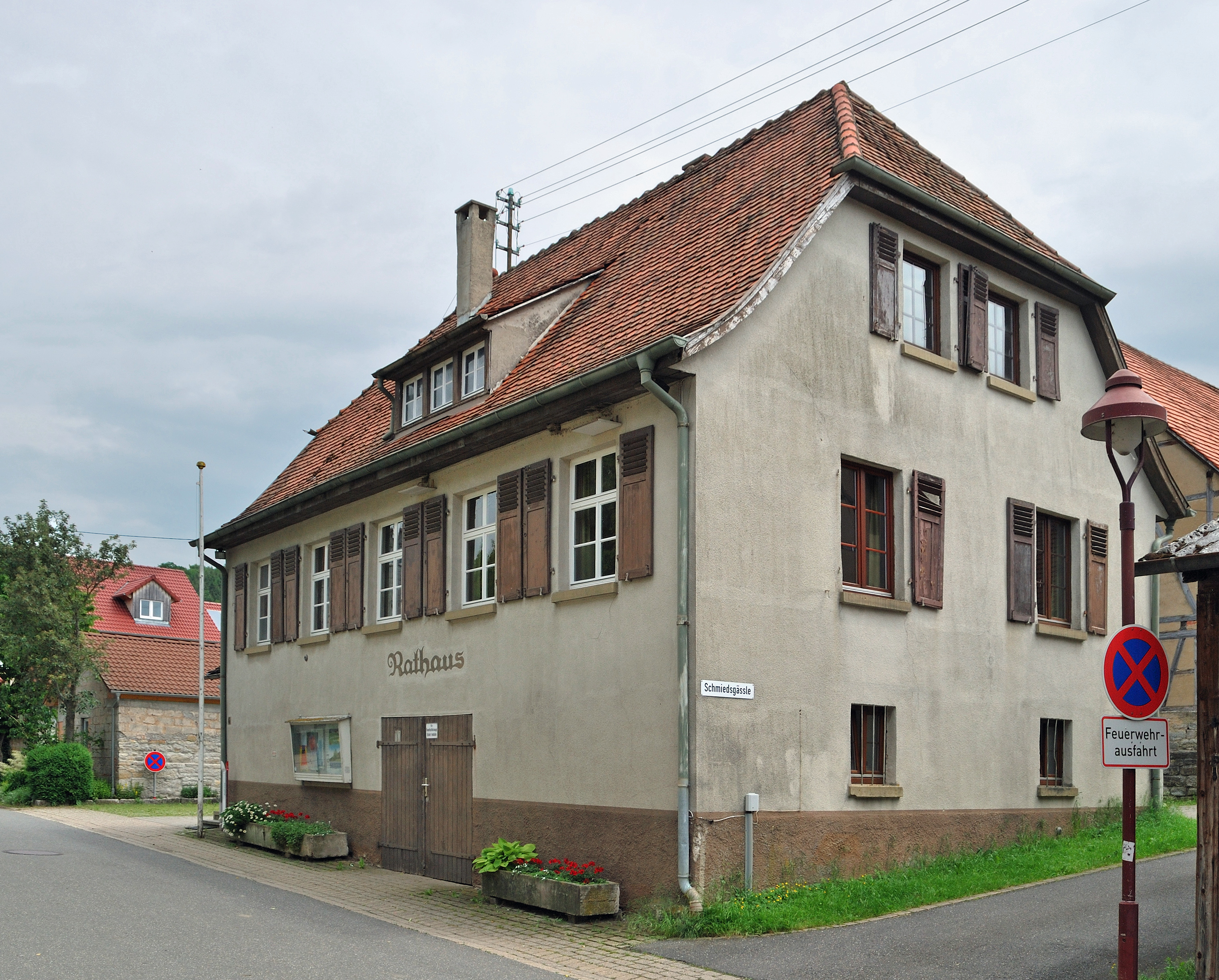 Municipal hall in Hohebach-Dörzbach in Southern Germany.